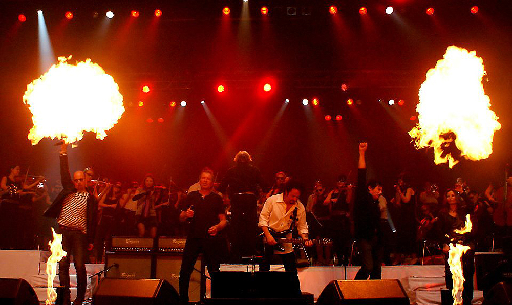 Chris Thompson, Ian Gillan, Steve Lukather, Jami Jamison, Robin Beck, 2012